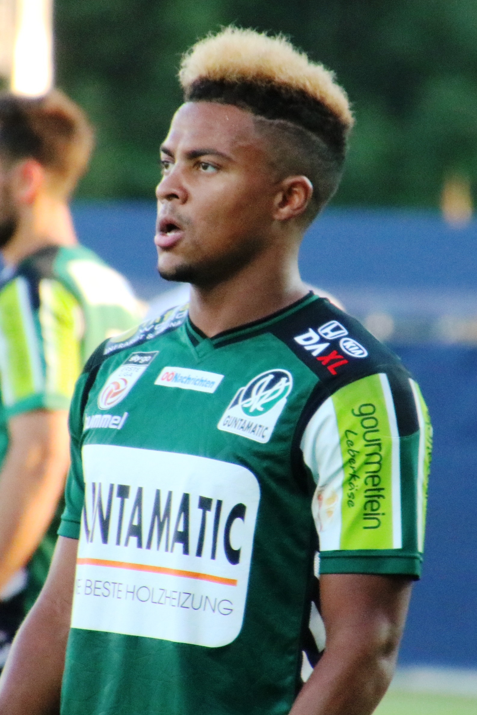 league match Austria 2nd league